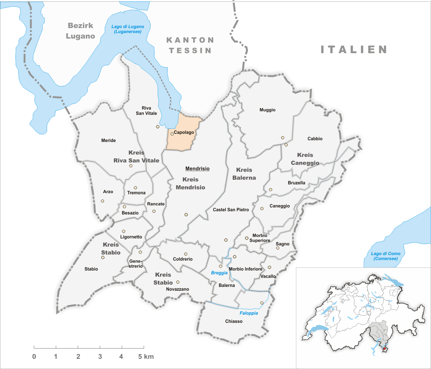 Municipality Capolago